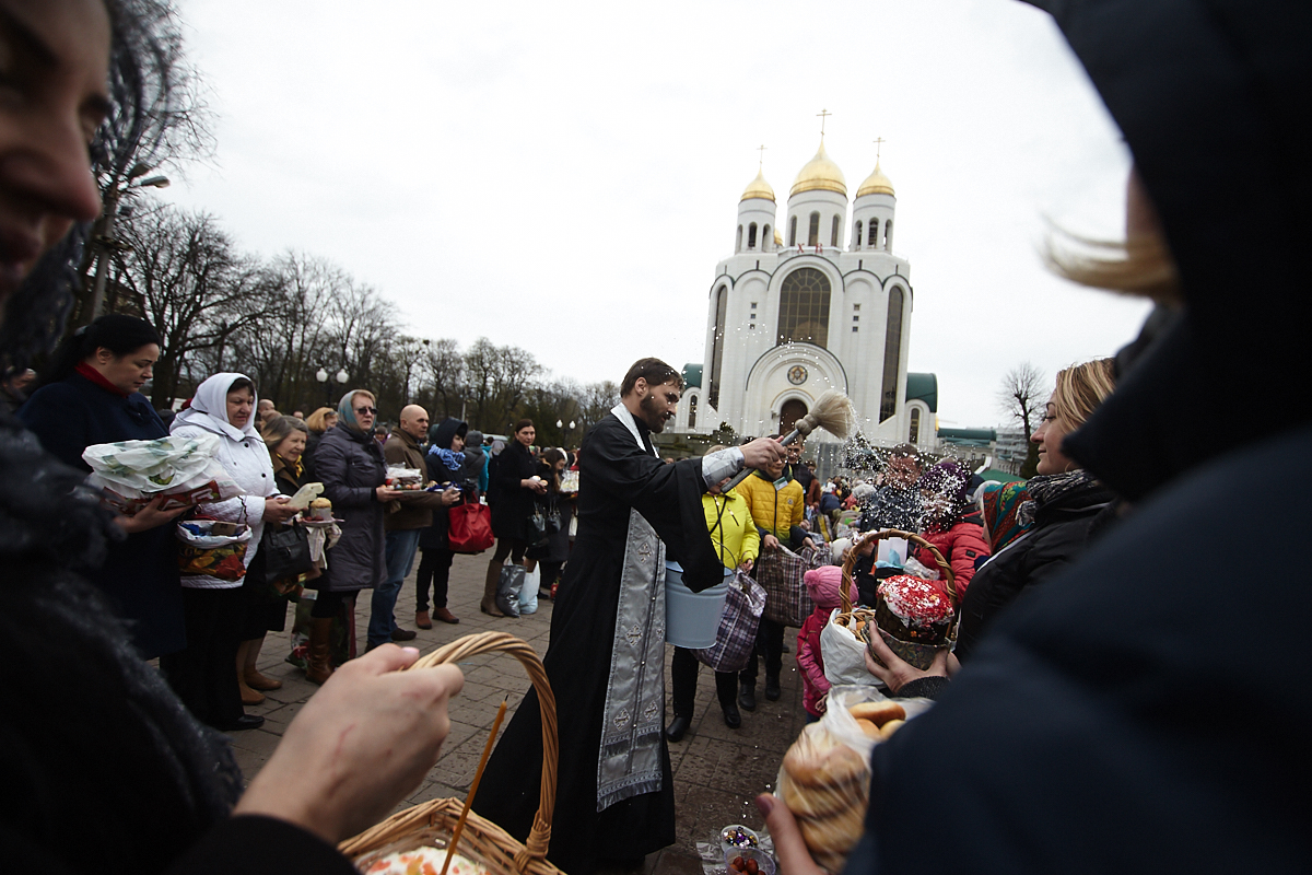 Blessing Easter Baskets in Kaliningrad 2017-04-15